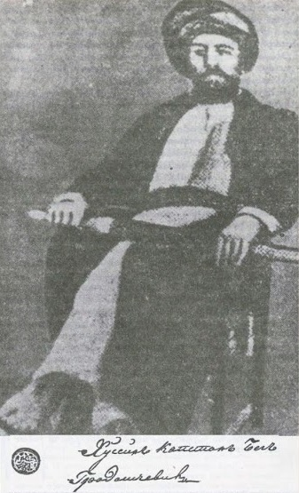 Monochrome photography of 19th century portrait of Bosniak general Husein Gradaščević (1802-1834)